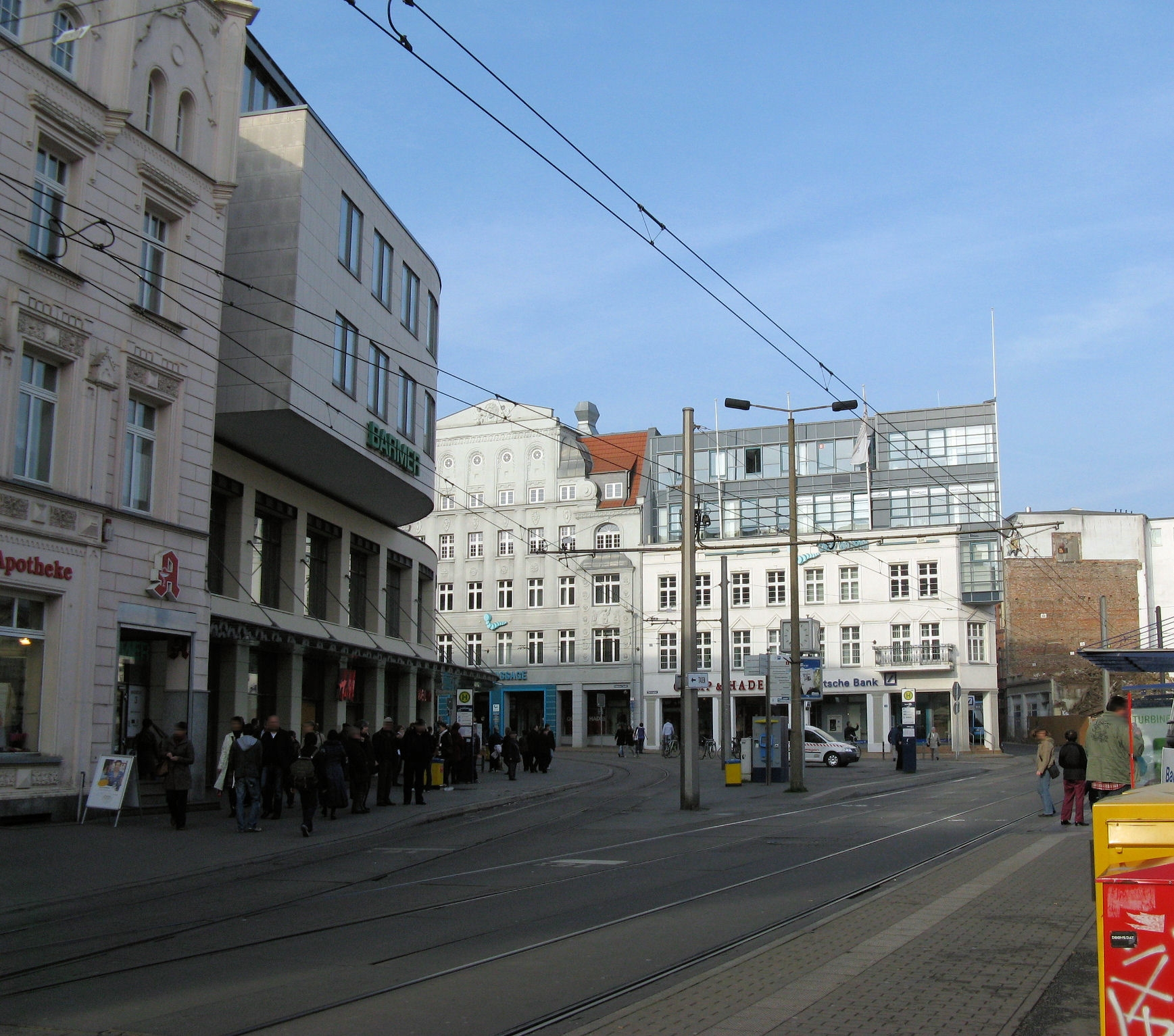 Square Marienplatz in Schwerin, Mecklenburg-Vorpommern, Germany